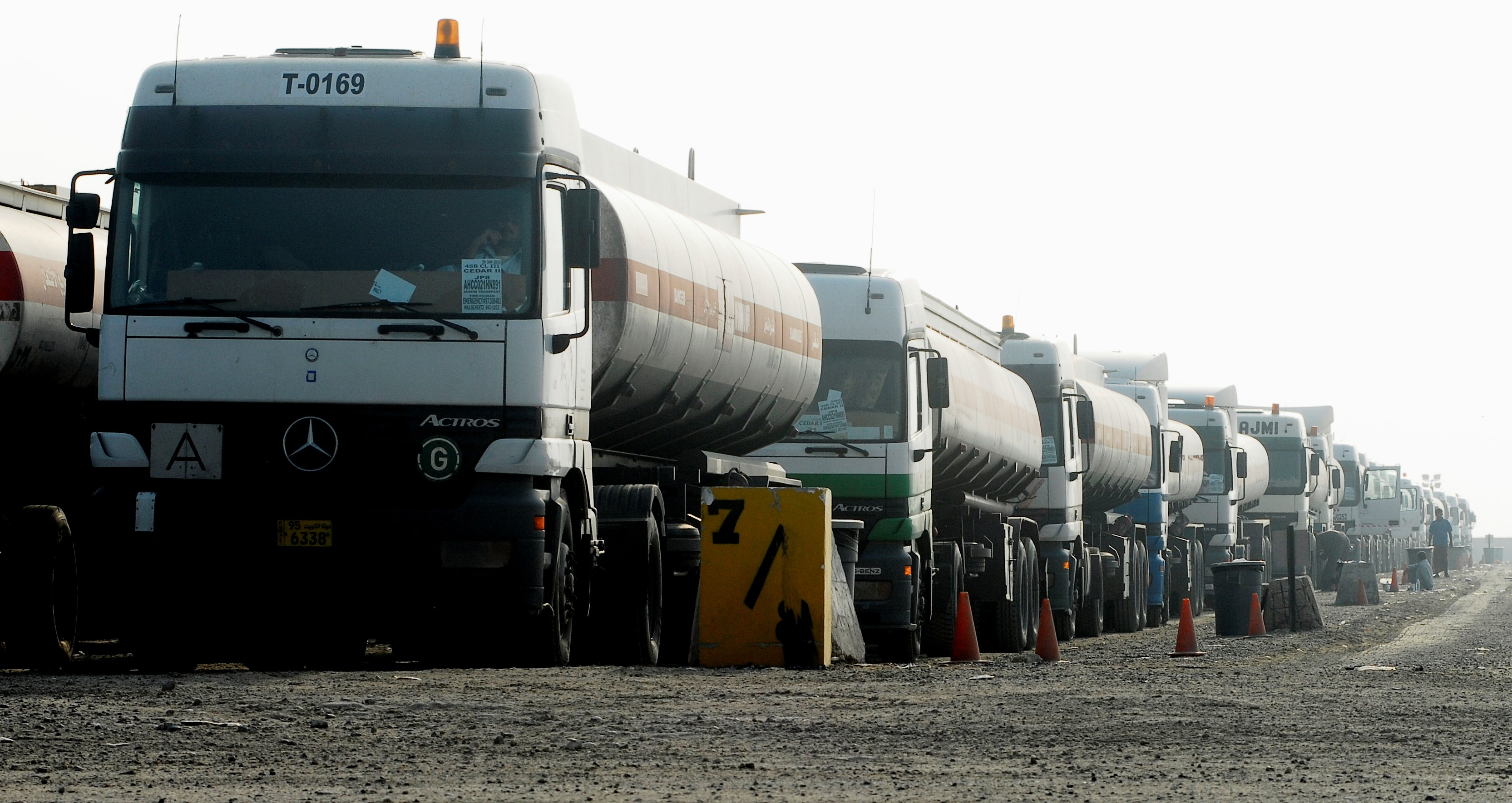 A long line of civilian trucks wait to be inspected by U.S. Soldiers prior to a convoy escort mission into Iraq, Jan. 21, 2010. Mercedes-Benz Actros trucks manufactured by Manufacturing Commercial Vehicles (MCV).